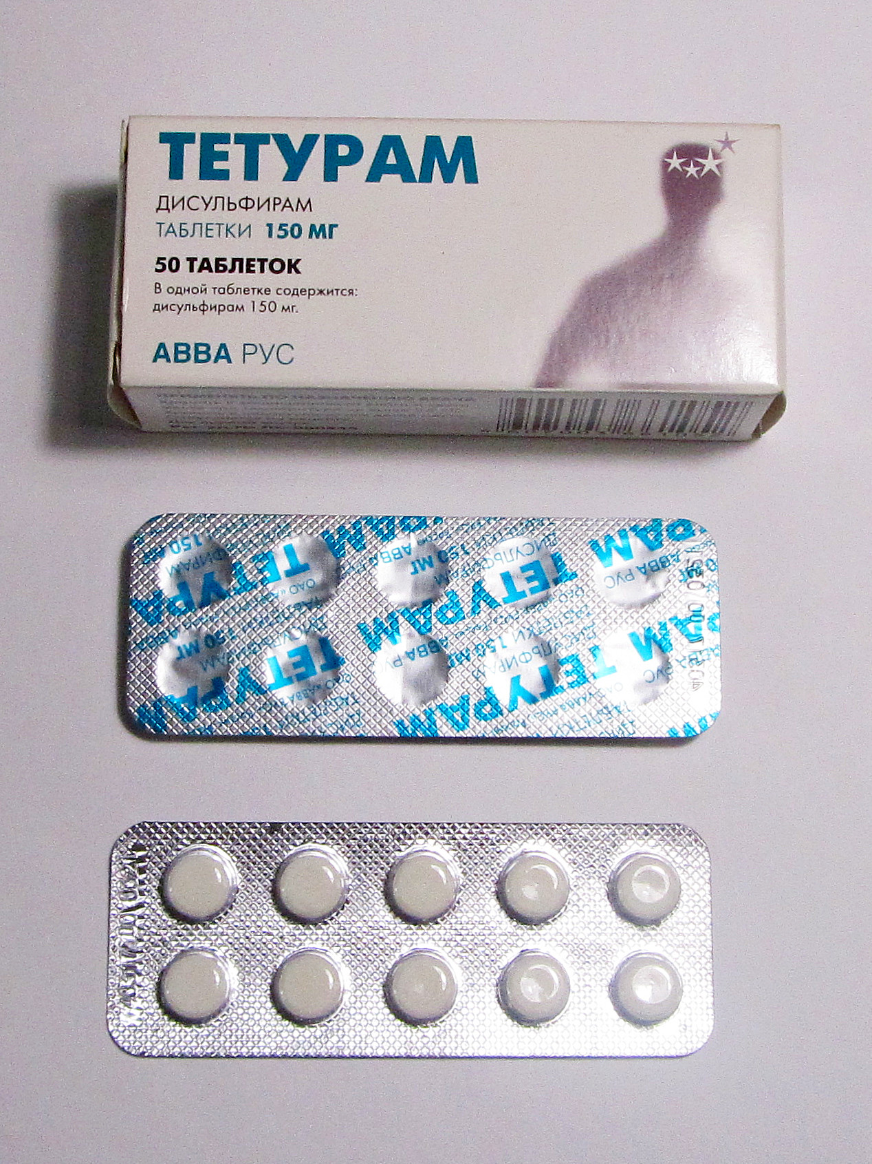 Disulfiram with product packaging